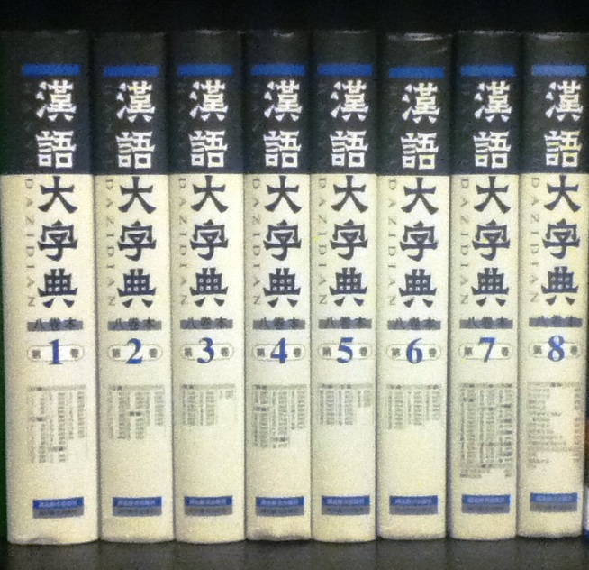 Monumental Chinese character dictionary.